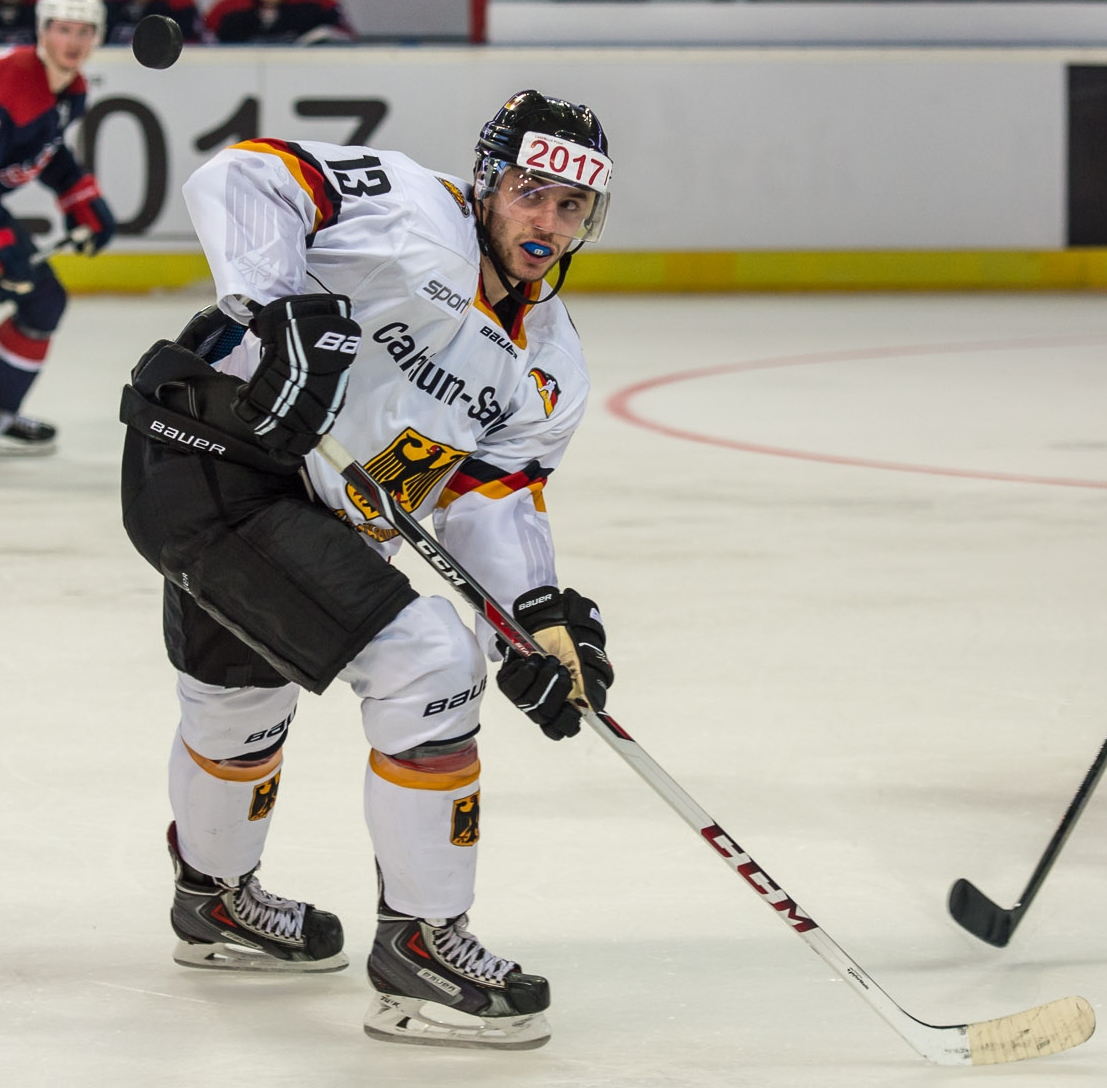 Tobias Rieder, German ice hockey right winger